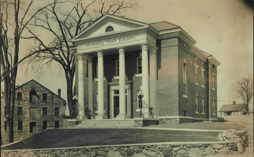 Town Hall Memorial Building in North Smithfield Slatersville RI Rhode Island USA in 1922